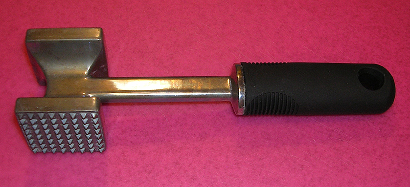 Side view of a meat pounder, also called a meat mallet, meat hammer, or meat tenderizer.